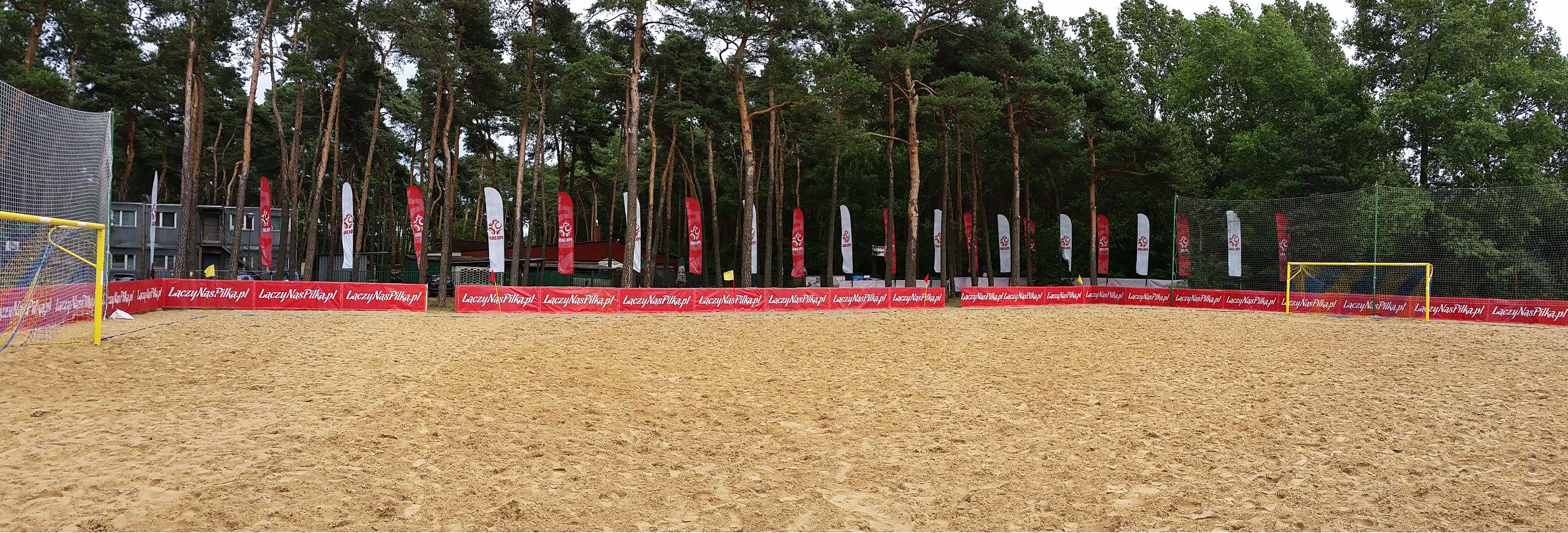 Beach soccer stadium, Mstowo